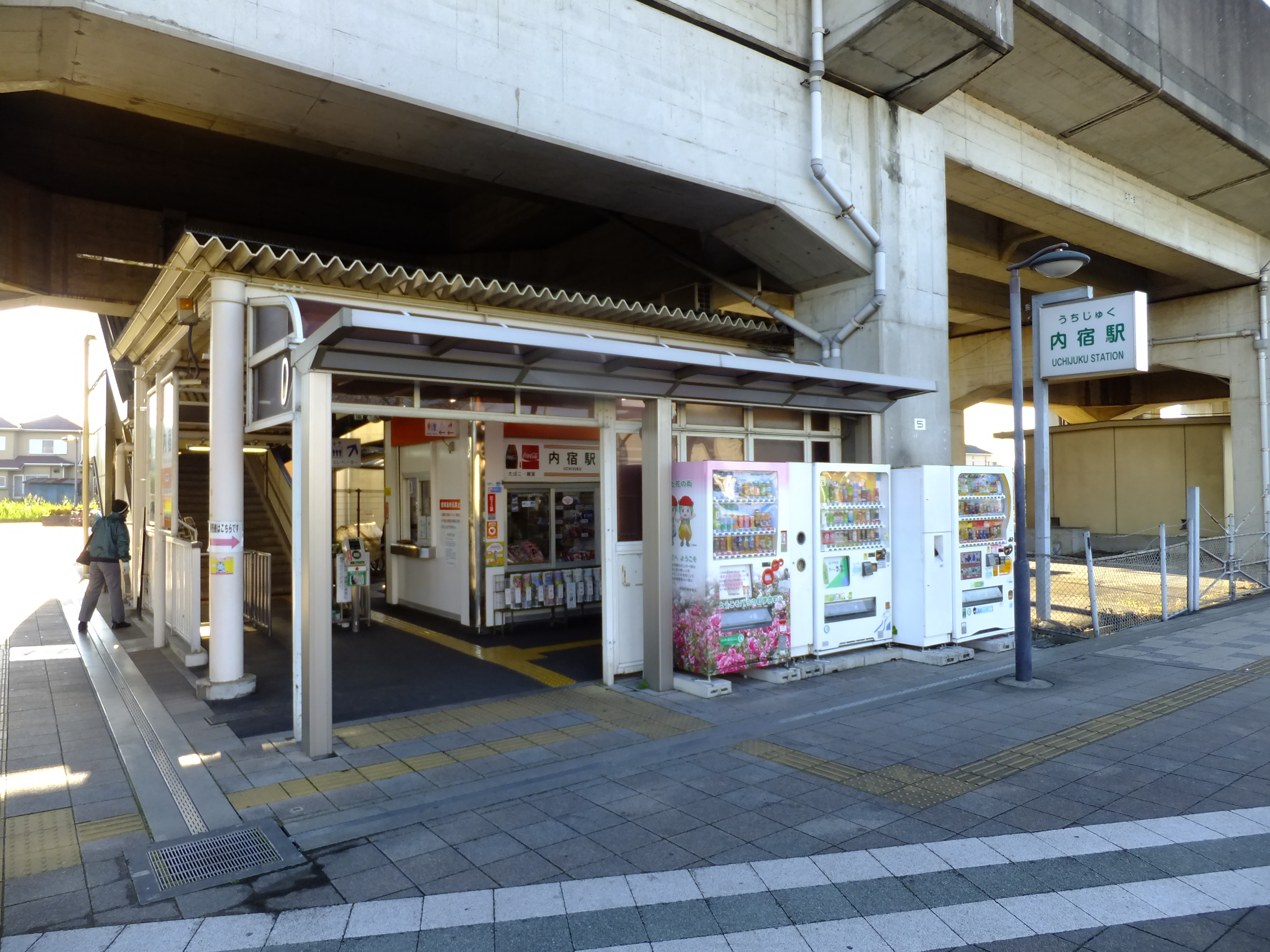 Uchijuku Station on the New Shuttle Line, in Ina, Saitama, Japan